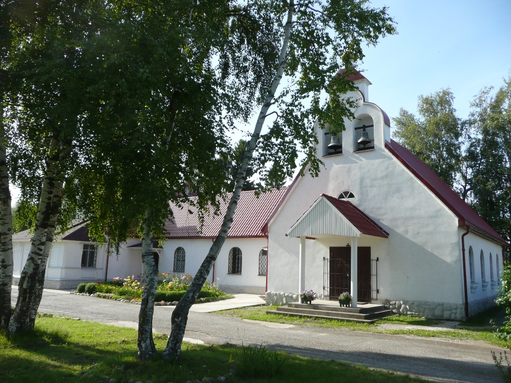 Loksa Orthodox Church with Rehabilitation Centre for Drug Addicts.